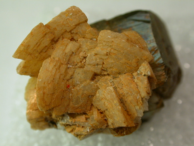 Ankerite on Pyrite Locality: Spruce Claim (Spruce Ridge), Goldmyer Hot Springs, King County, Washington, USA Original description: A 2.2 by 1.8 cms group of crystals on a Pyrite crystal.